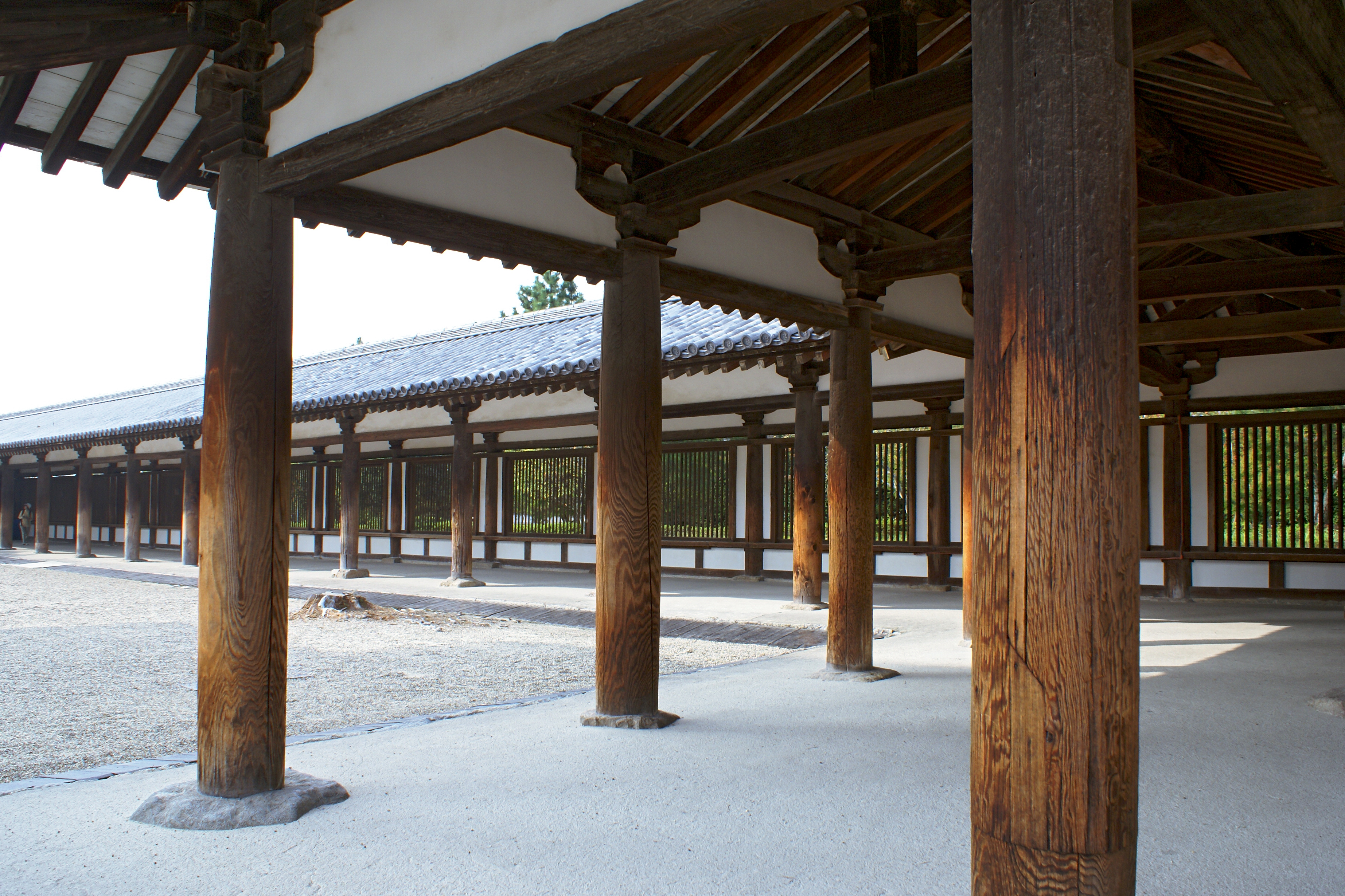 Horyu-ji in Ikaruga, Nara prefecture, Japan